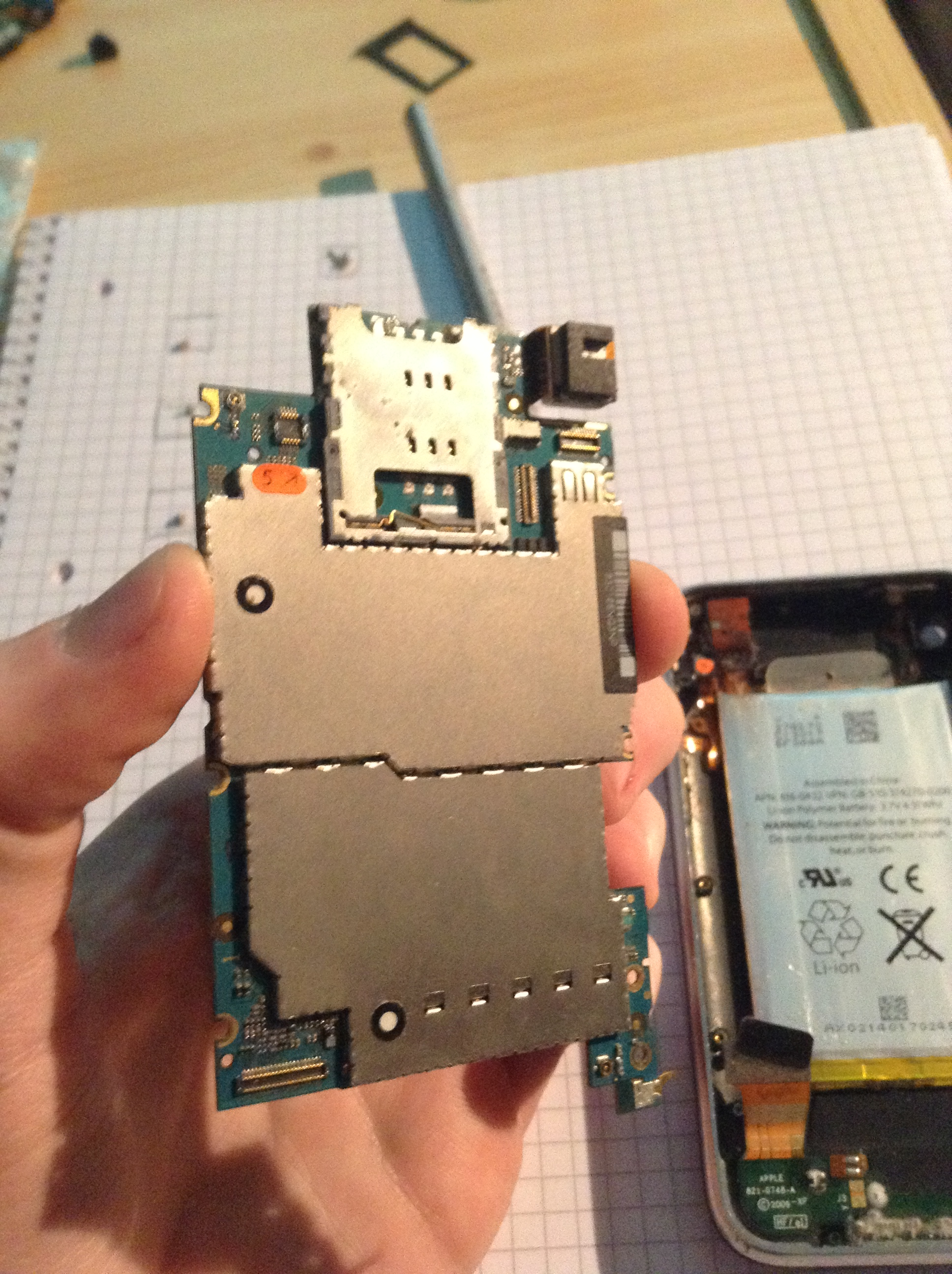 Logicboard of an iPhone 3GS